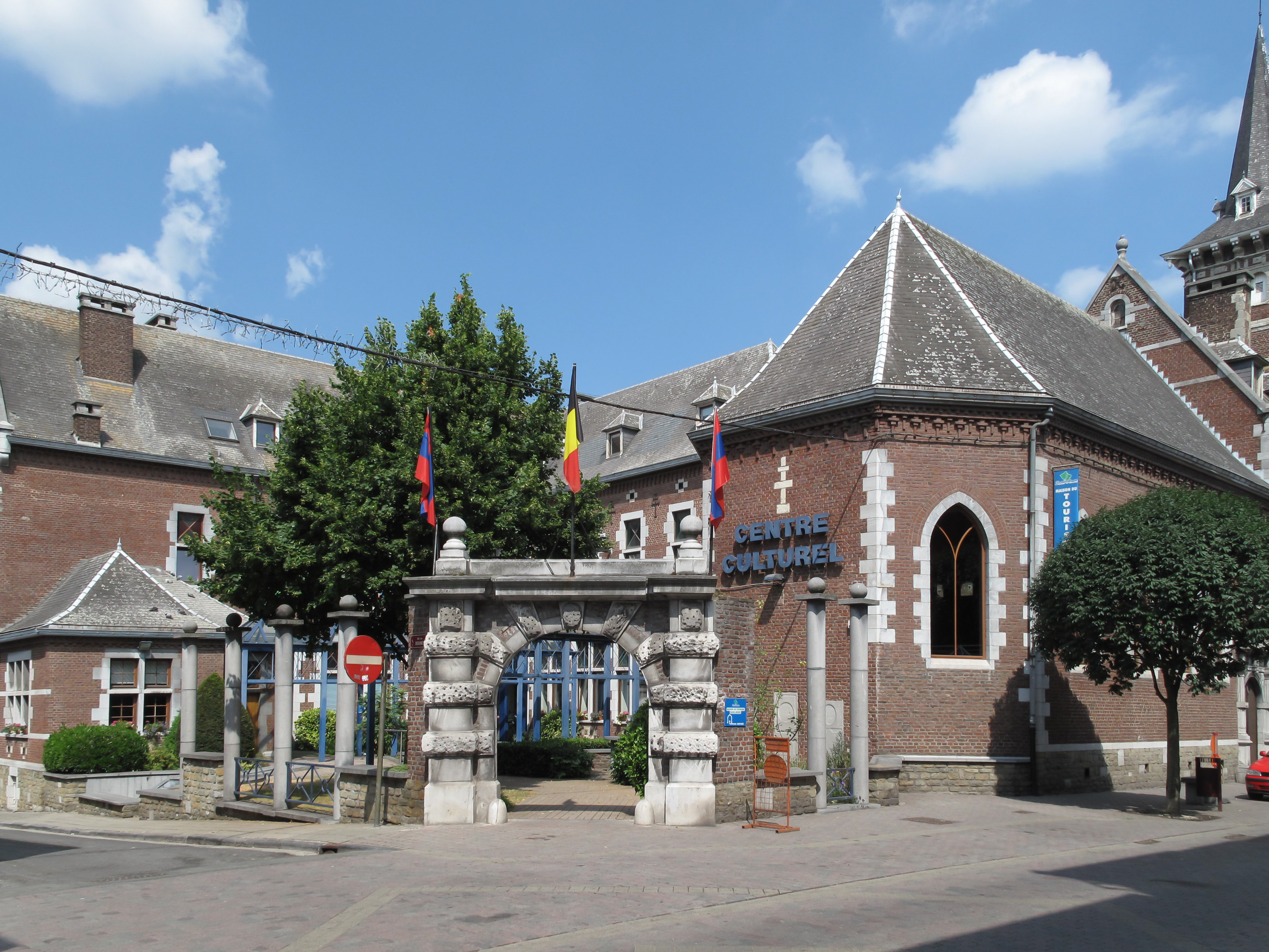 Visé, centre culturel